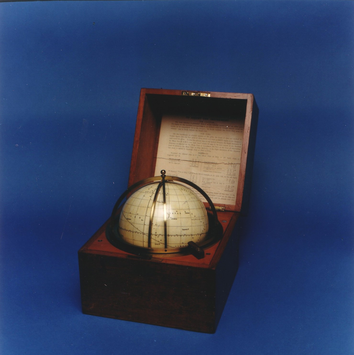 English's Patent Star Finder (globe mounted in box), from the University of Dundee Museum Collections.